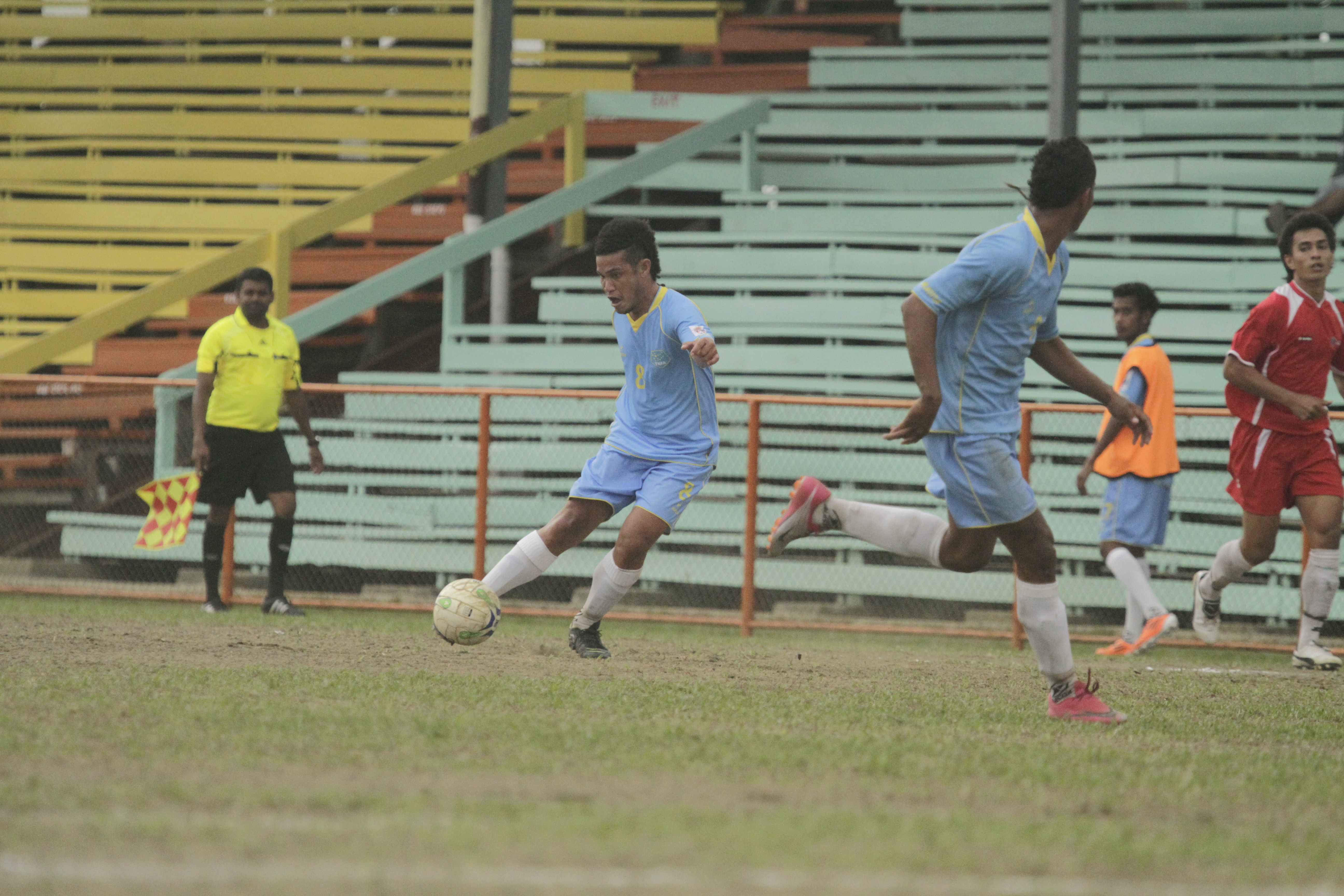 Akelei_02